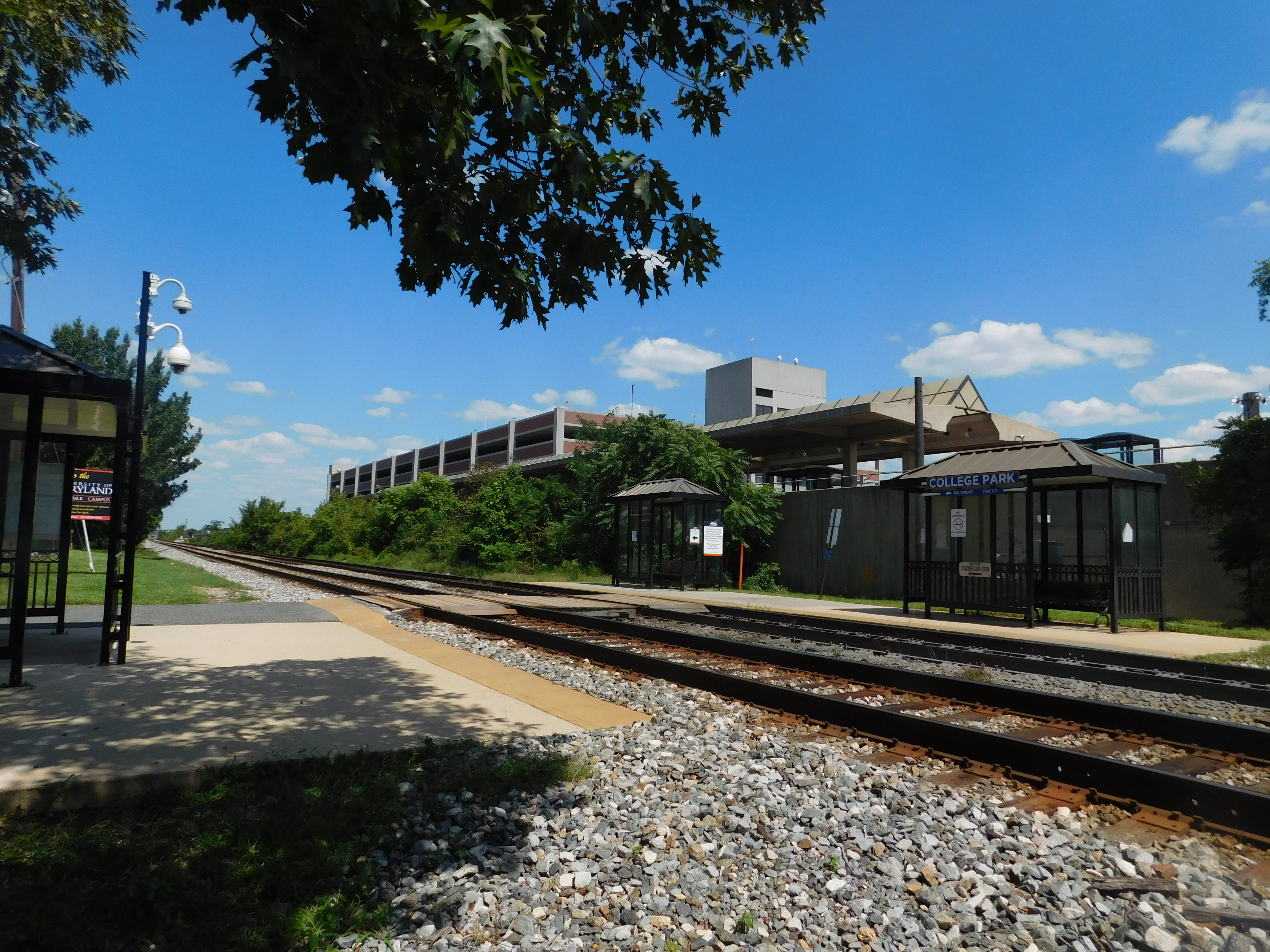 ollege Park–University of Maryland station for MARC Train in August 2018.